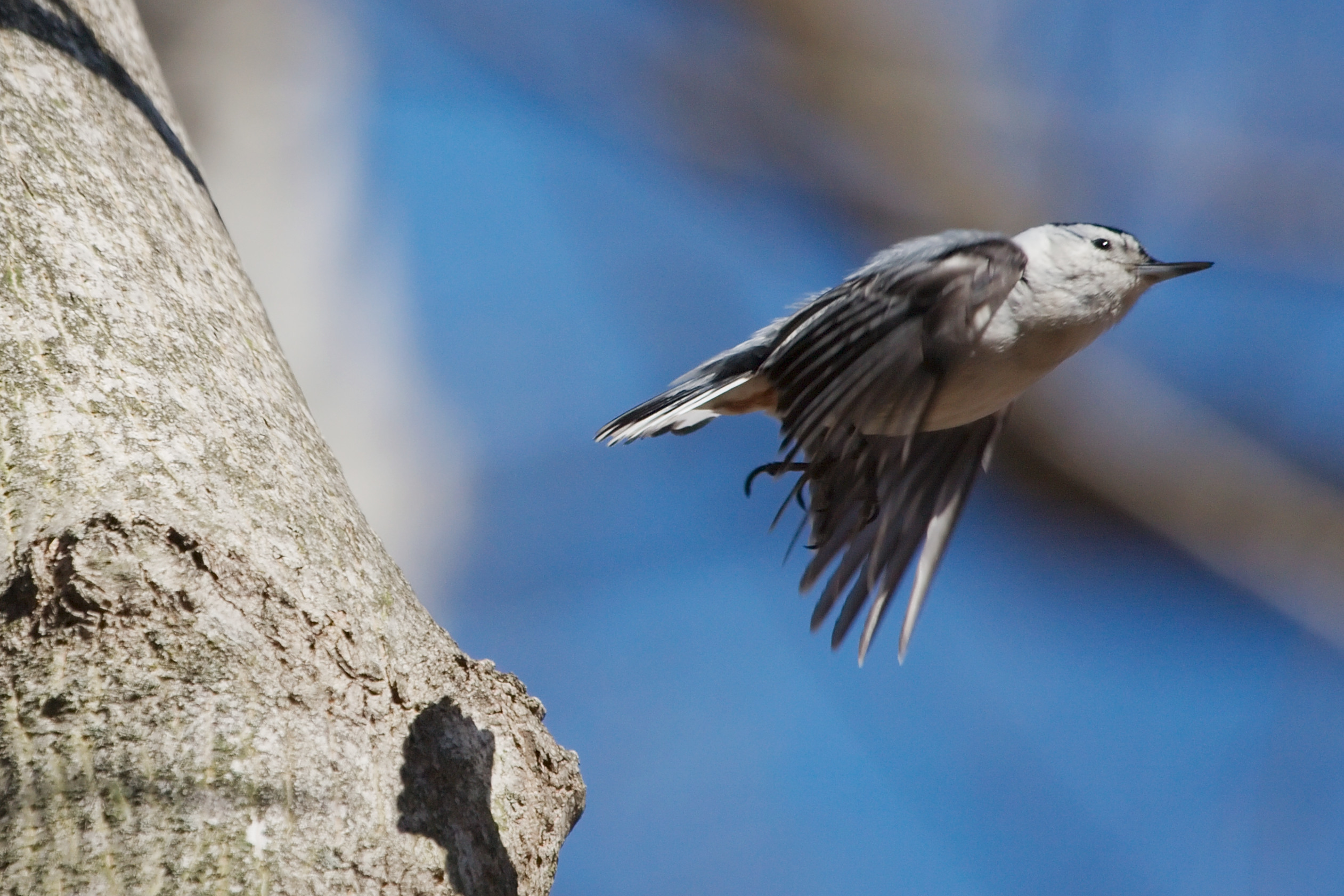 A white-breasted nuthatch (Sitta carolinensis), taken in Fox Point, Wisconsin